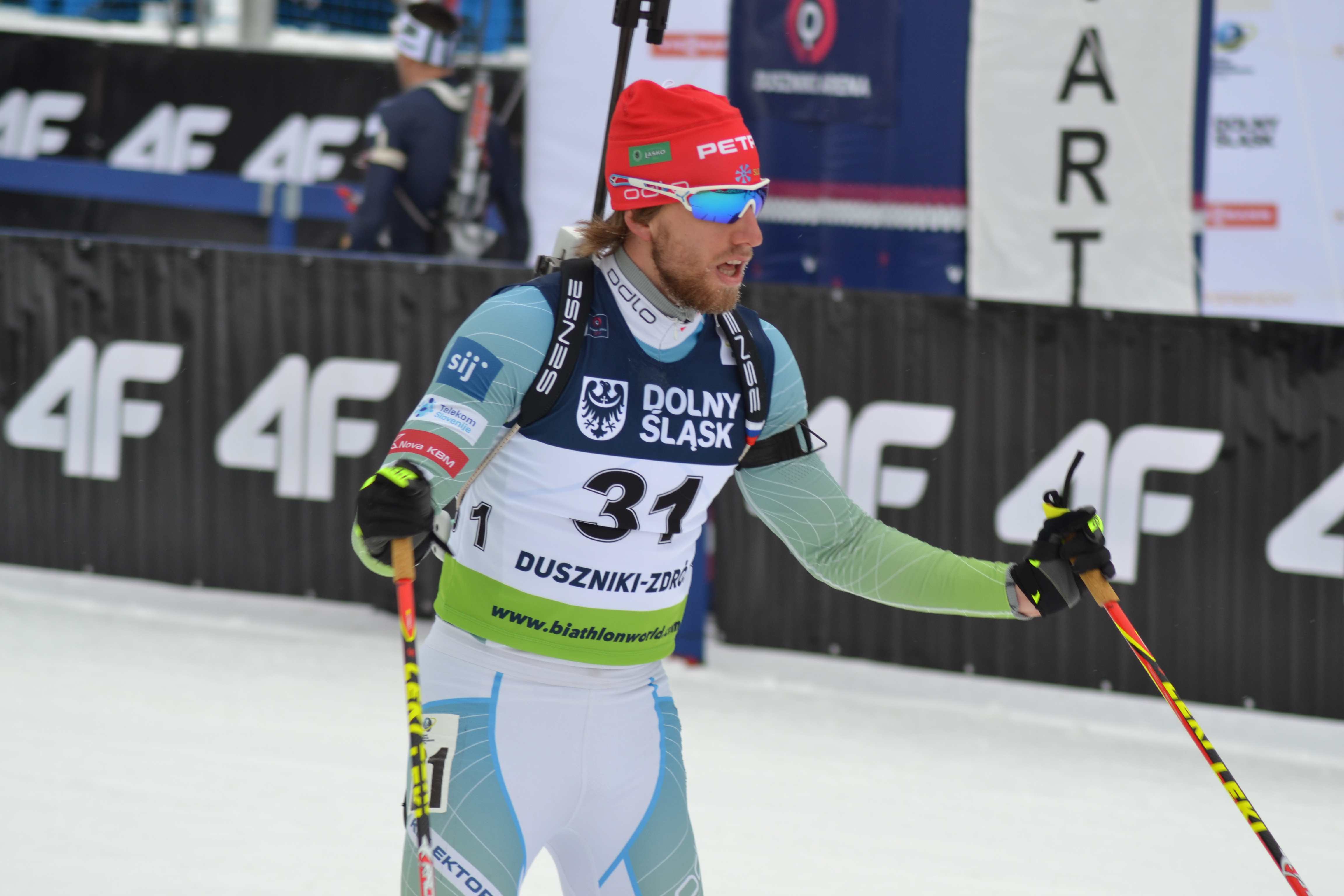 Open European Championships Biathlon 2017, Individual Men's race, held on January 25th.